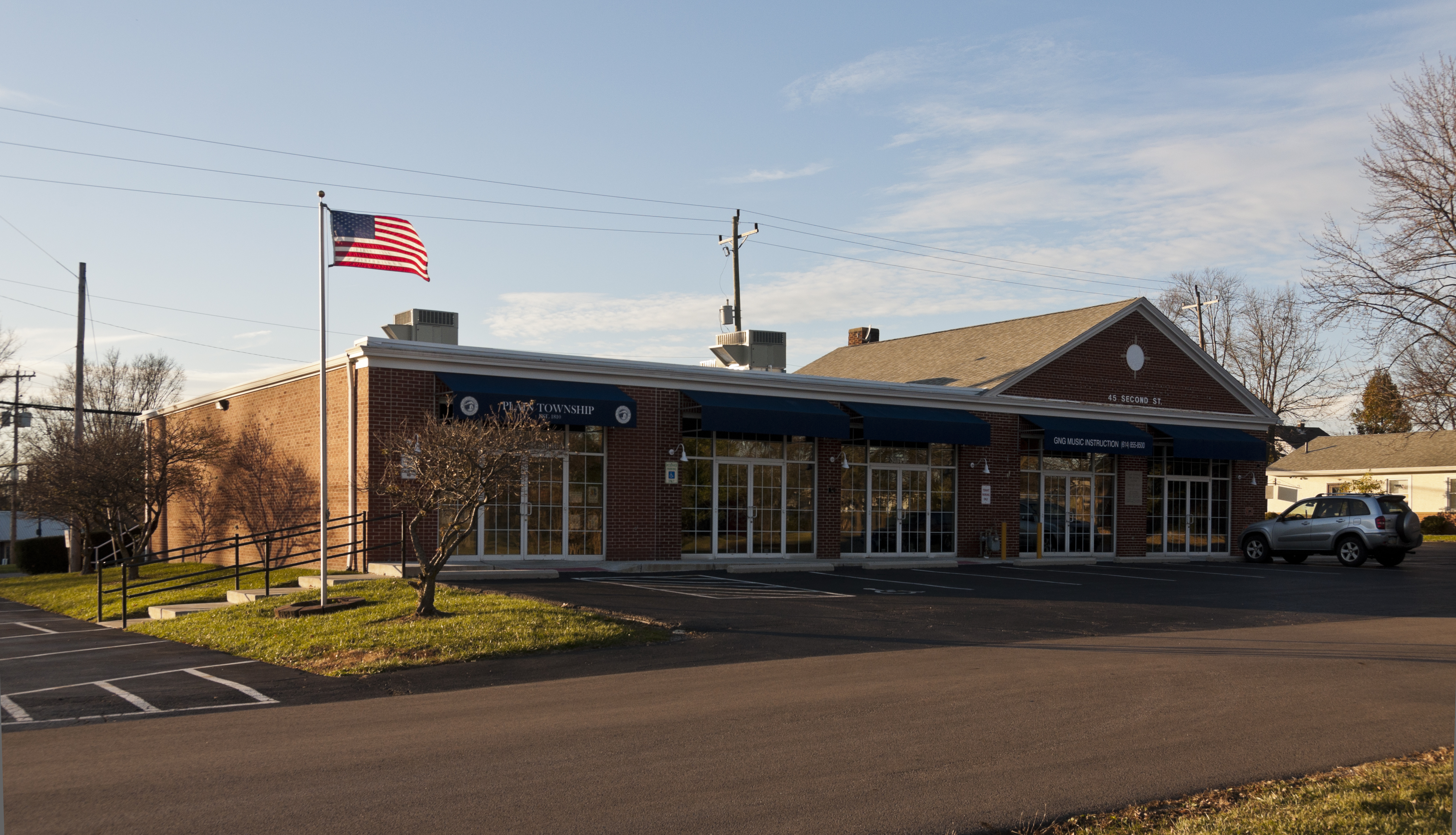 The Townhall of Plain Township, Franklin County, Ohio. The Town hall occupies most of the building starting on the left side of the photo.